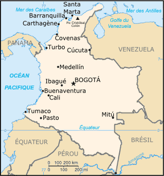 Map in French of Colombia